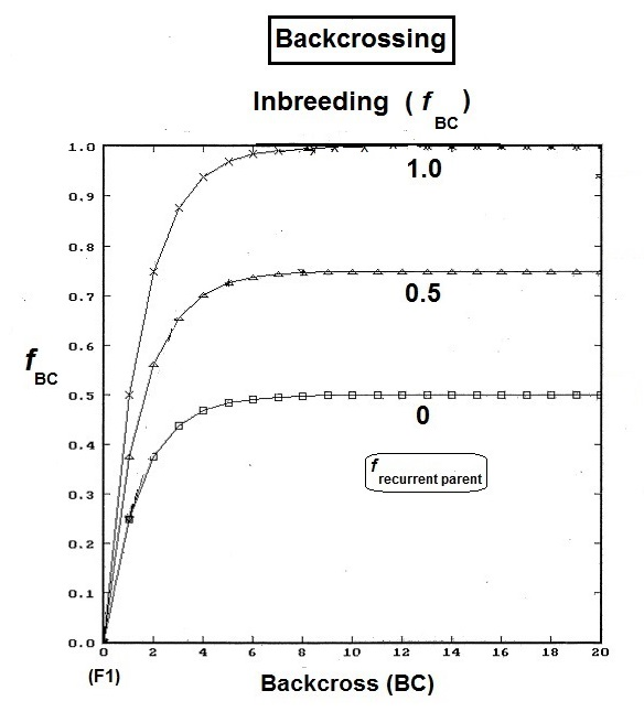 Backcrossing inbreeding lavels